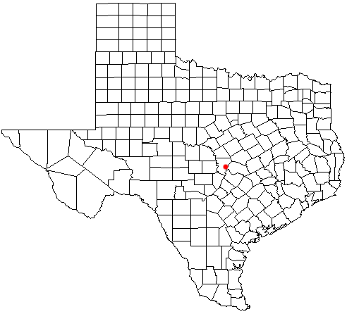 Oatmeal, Texas location map; created with the GIMP. Made by User:Acntx.